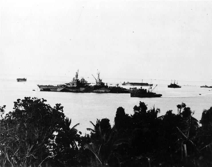 The U.S. Navy heavy cruiser USS Indianapolis (CA-35) in a Pacific harbour, circa May-October 1944.